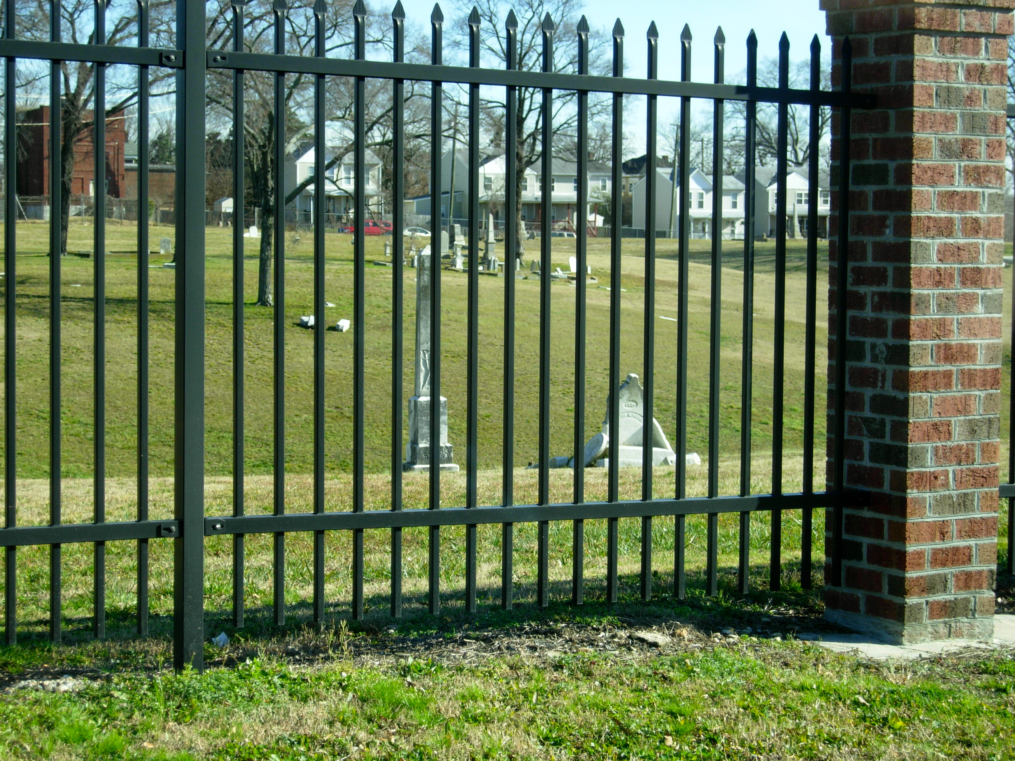 Barton Heigts Cemeteries, Richmond, VA